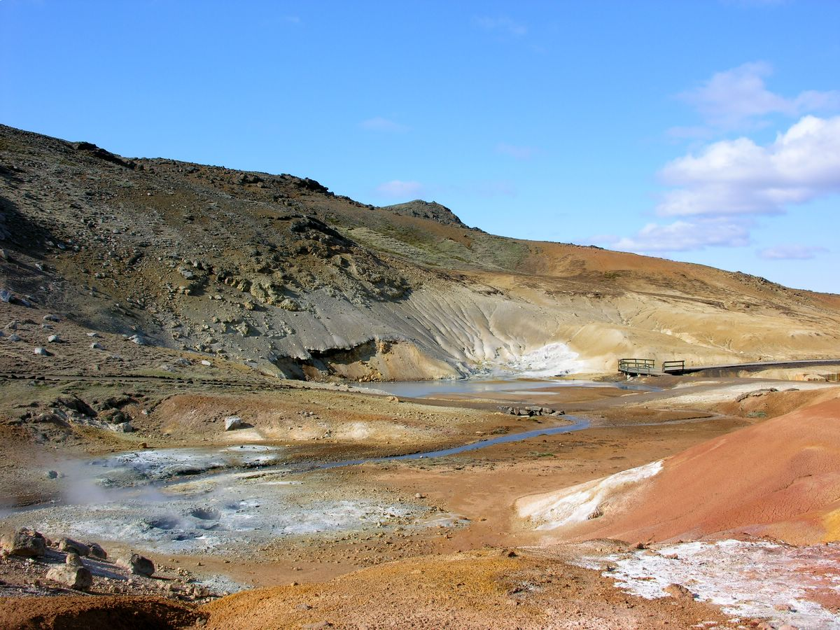 Krysuvik, a thermal area in the Southwest of Iceland